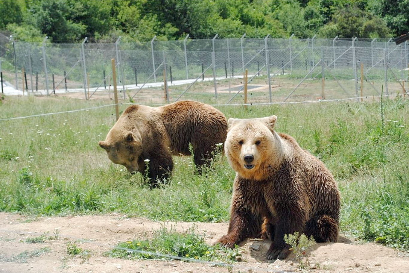 Ero and Mira are currently kept in the sanctuary Prishtina